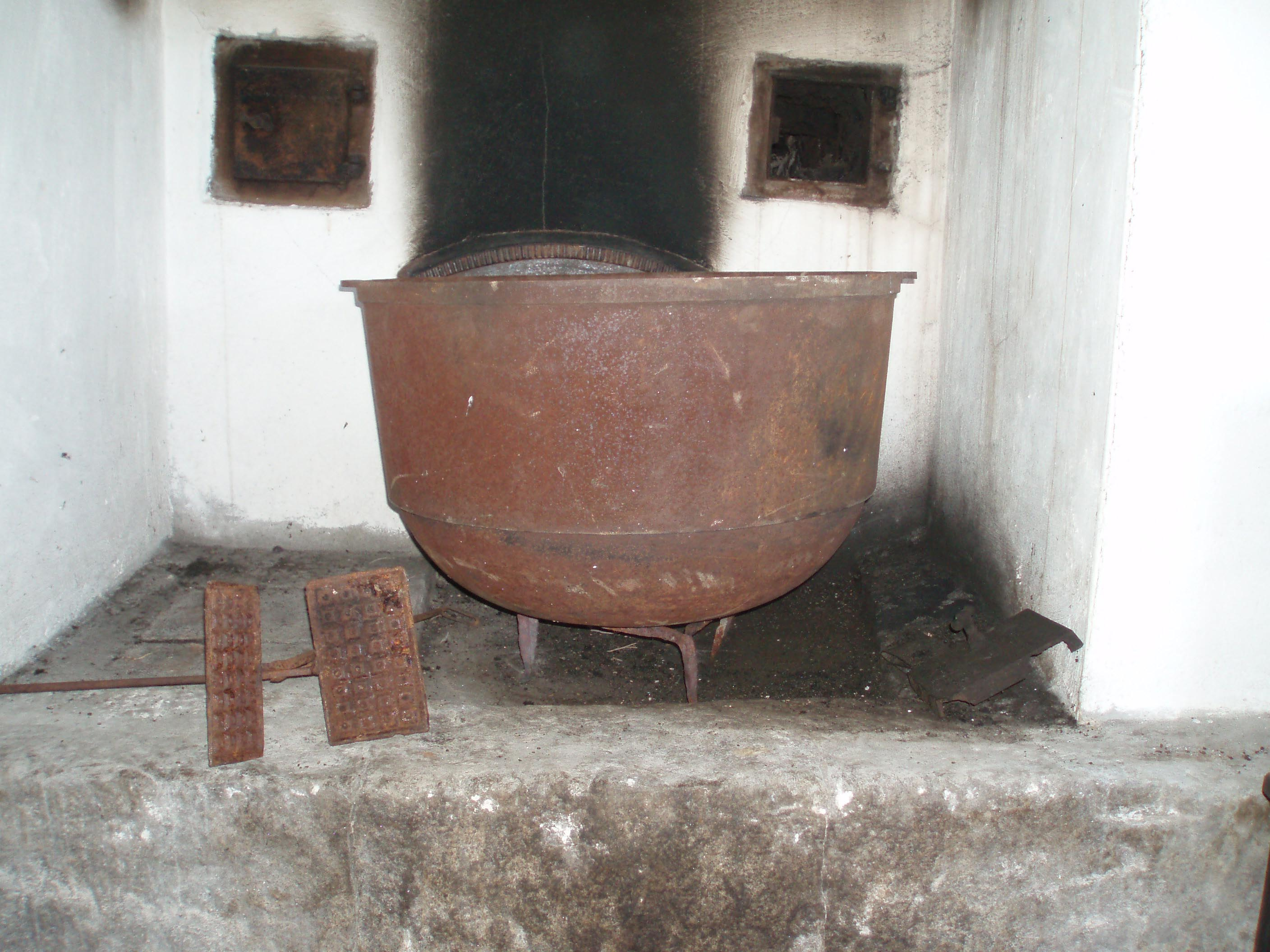 "Storgryte" 100 liters. Photo by User:Friman 2006-07-14.